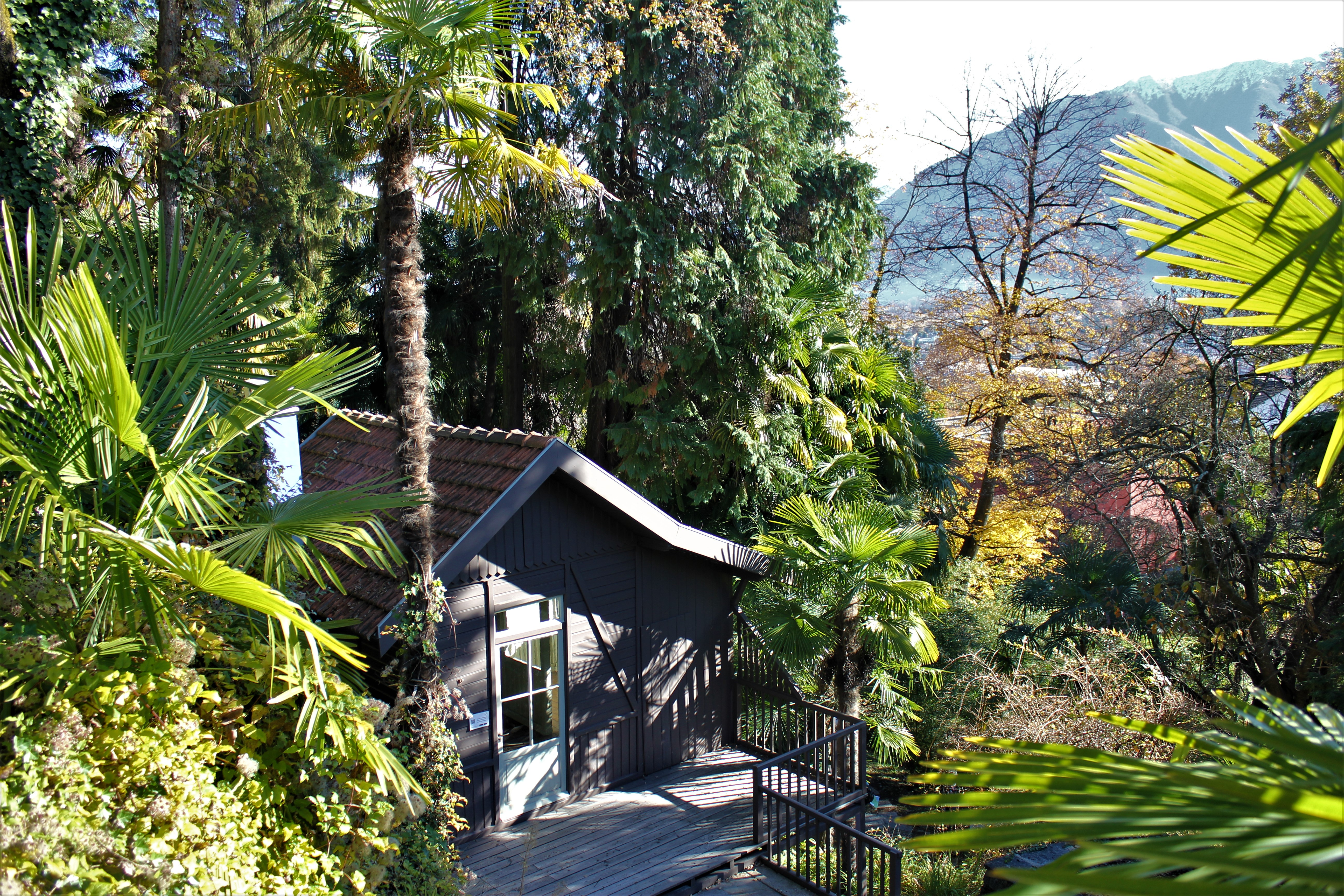 View from the Casa Anatta onto Casa dei Russi